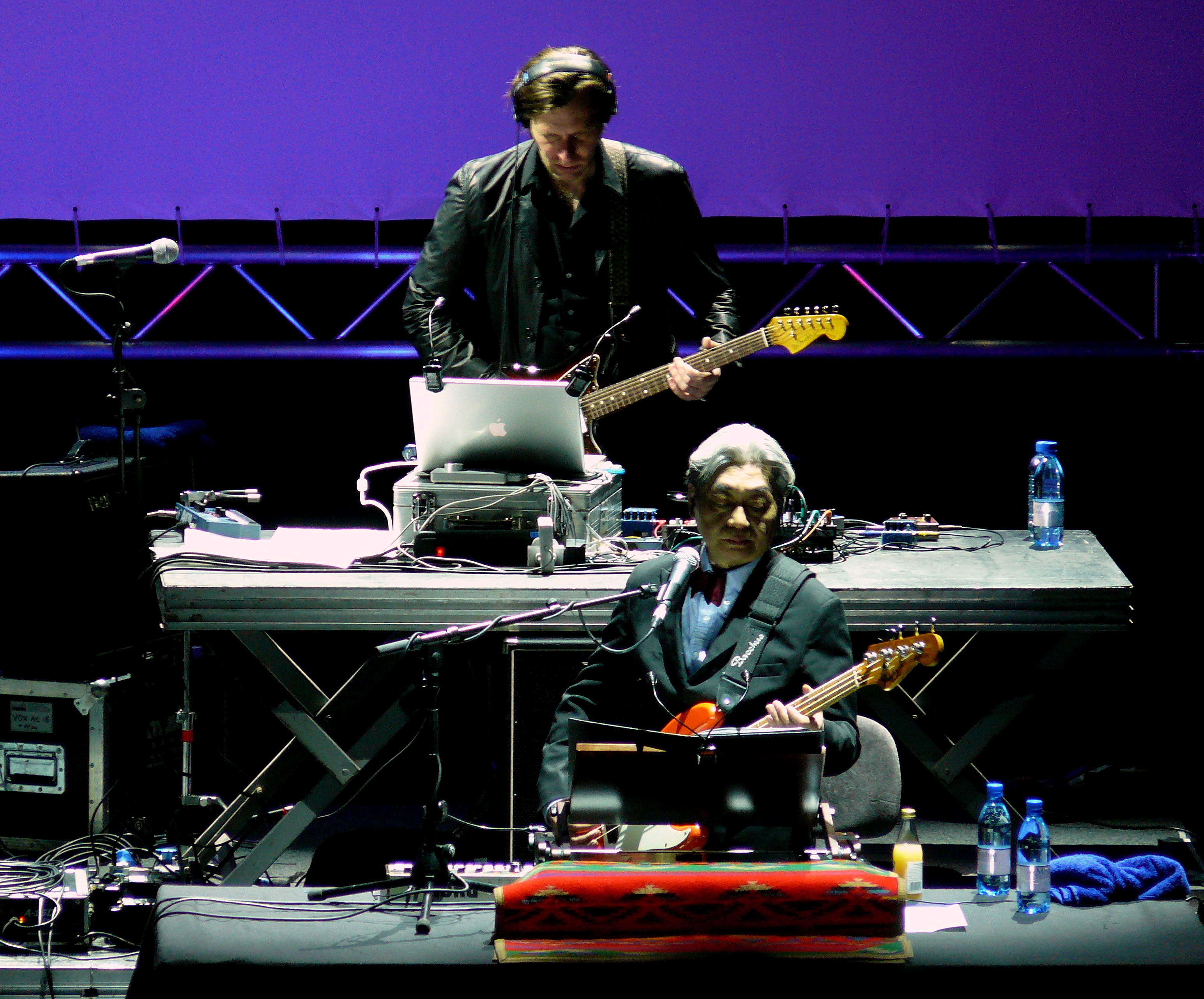 Bass player Haruomi Hosono playing a London concert with Yellow Magic Orchestra in 2008